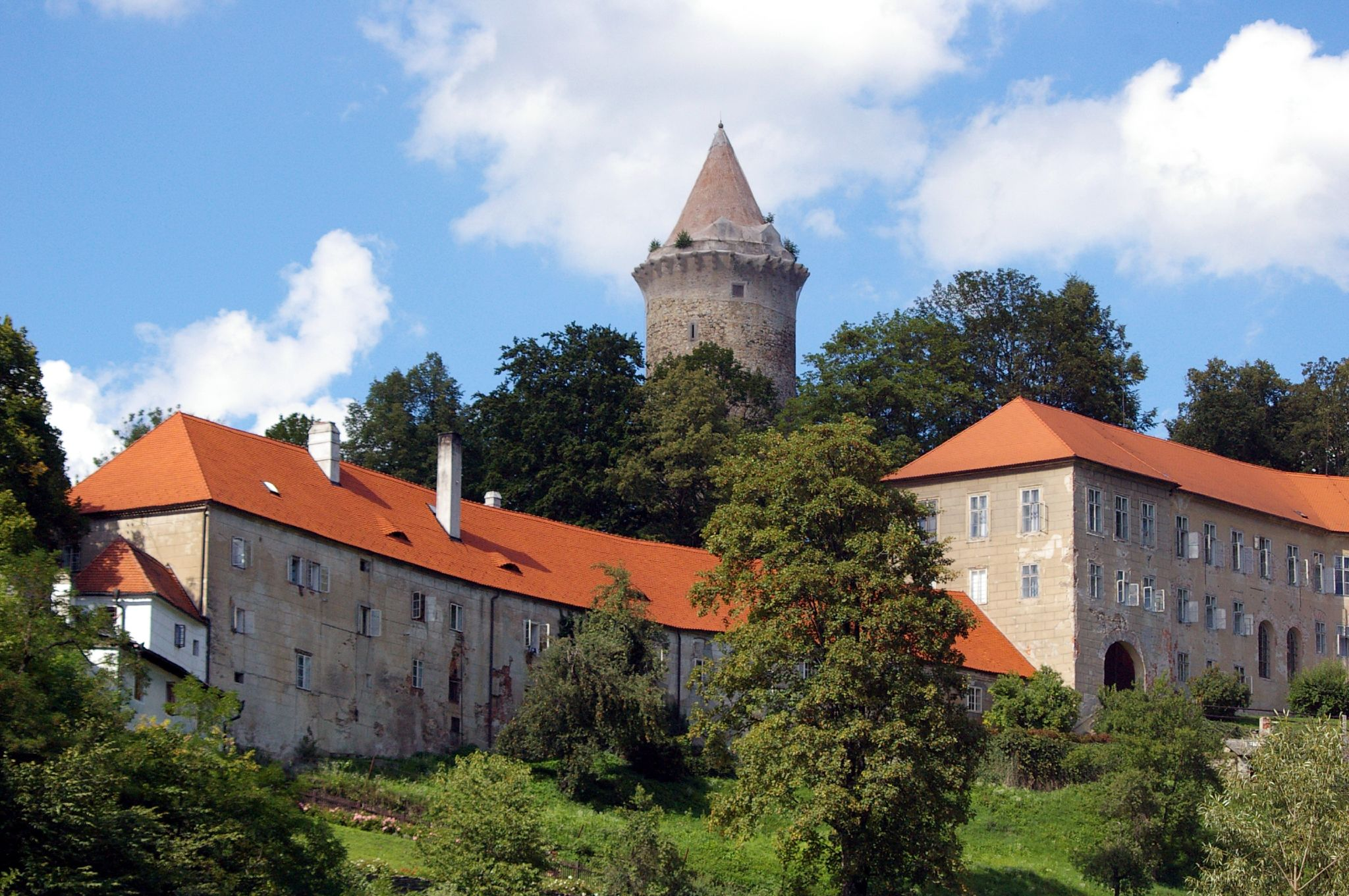 Rožmberk Castle